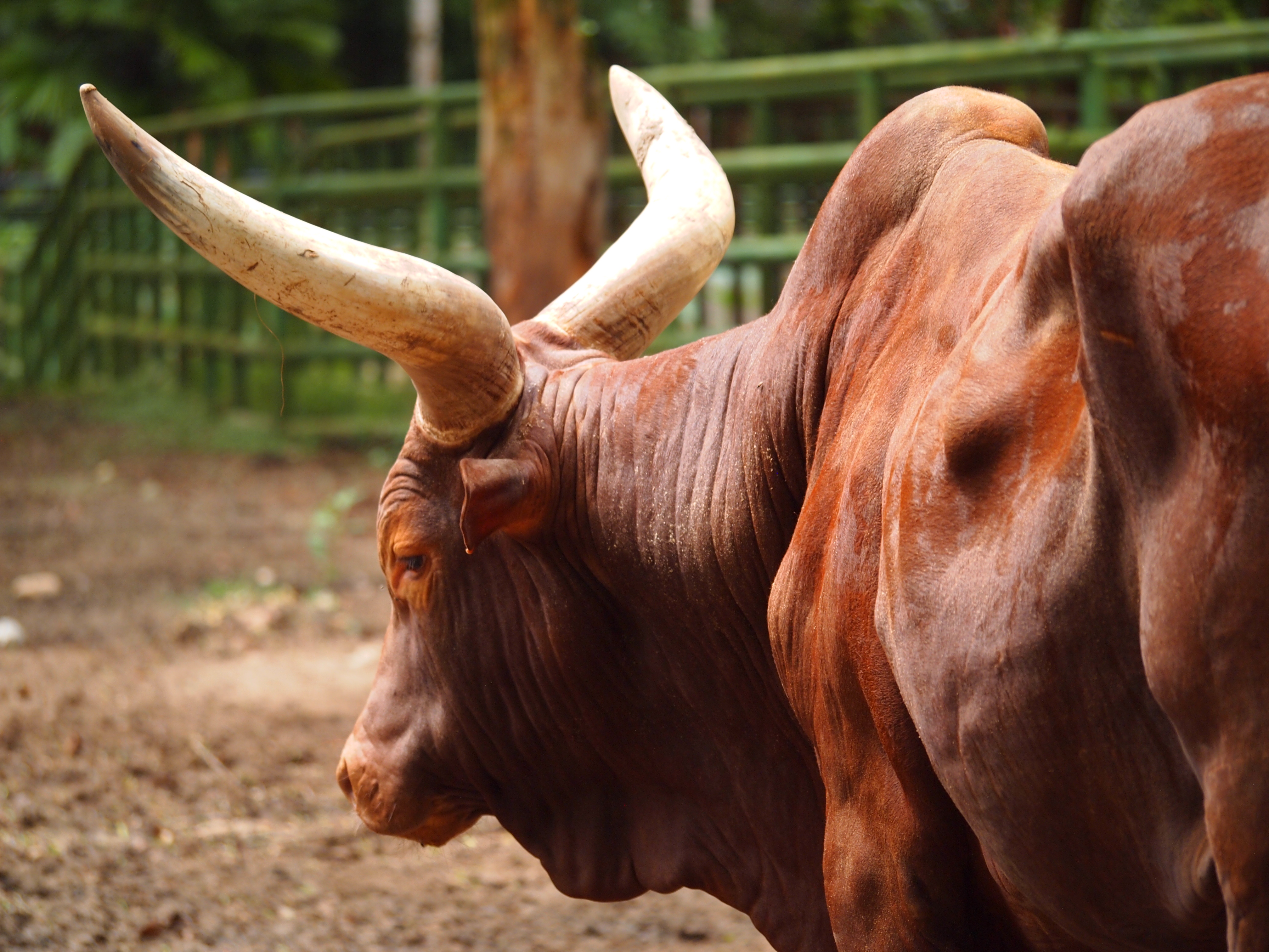 Ankole or Watusi at National Zoo Malaysia